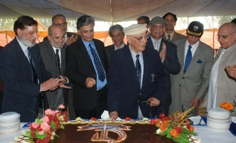 The Founders' Day 2010